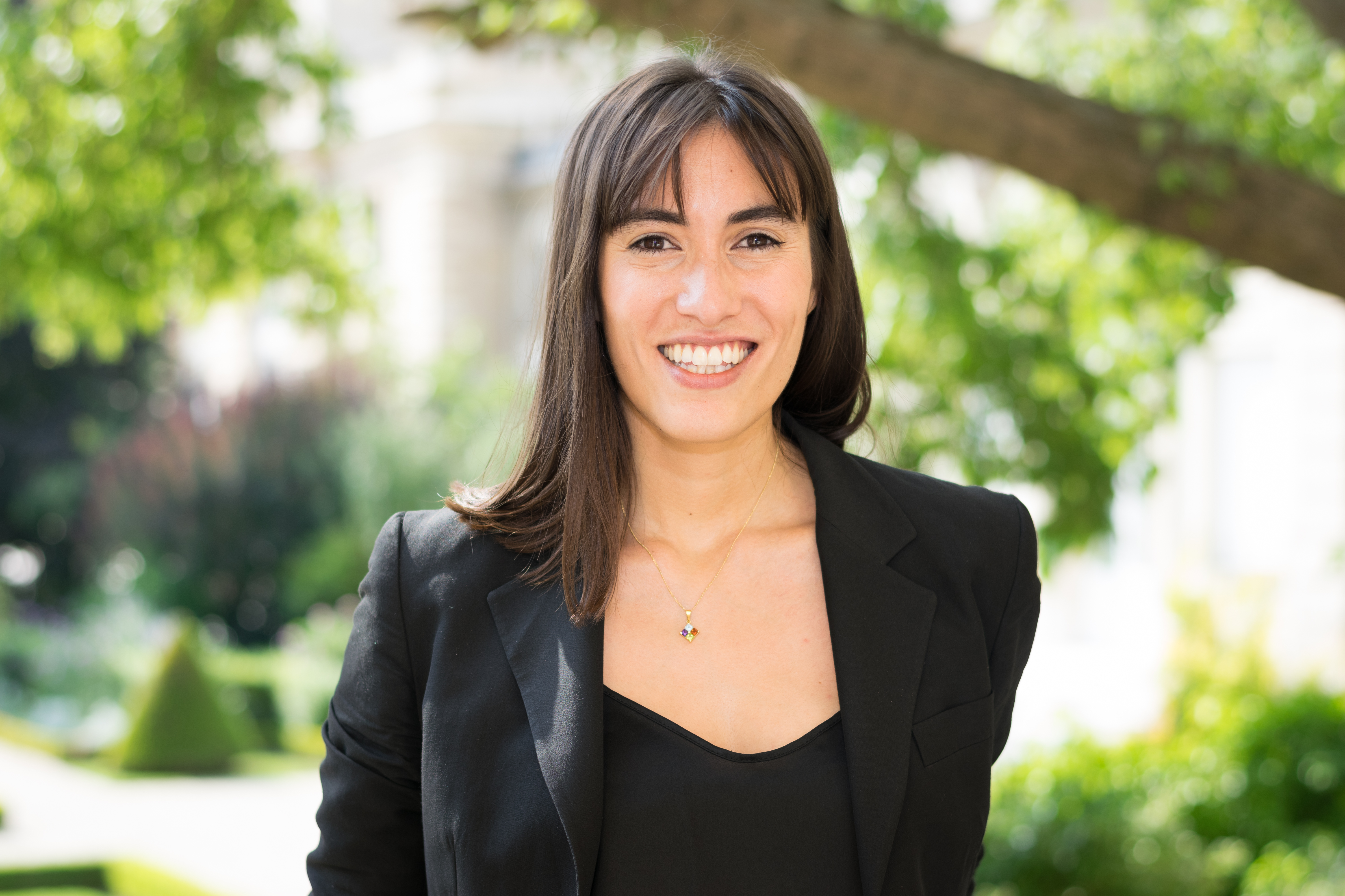 Paula Forteza in the garden of the Quatres Colonnes in the Palais Bourbon (Paris, France).